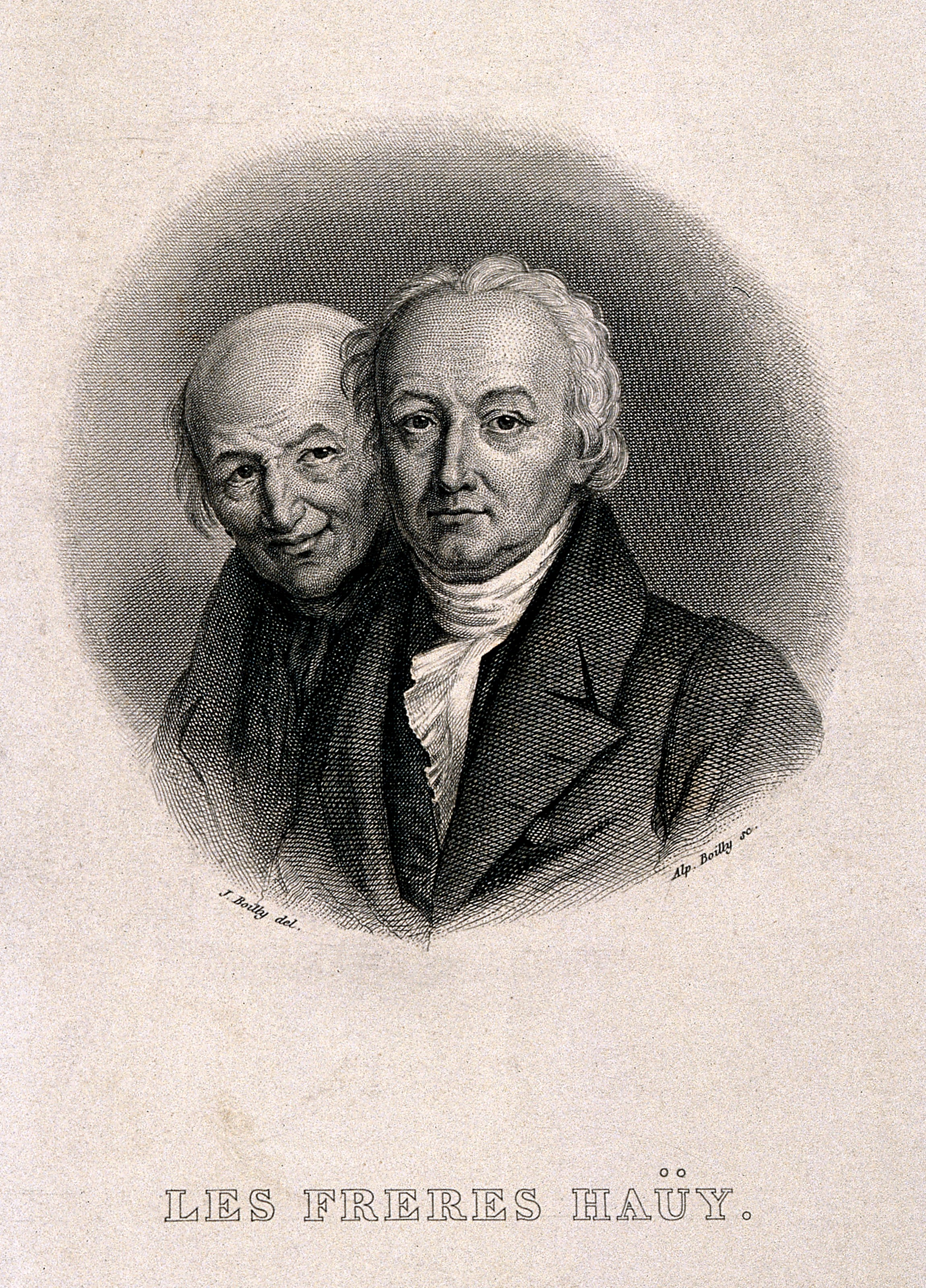 René-Just Haüy and his brother Valentin. Engraving by A. Boilly after J. Boilly. Iconographic Collections Keywords: Valentin Haüy; Alphonse Boilly; René-Just Haüy; Julien Léopold Boilly